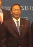 Philippine Vice-President Jejomar Binay